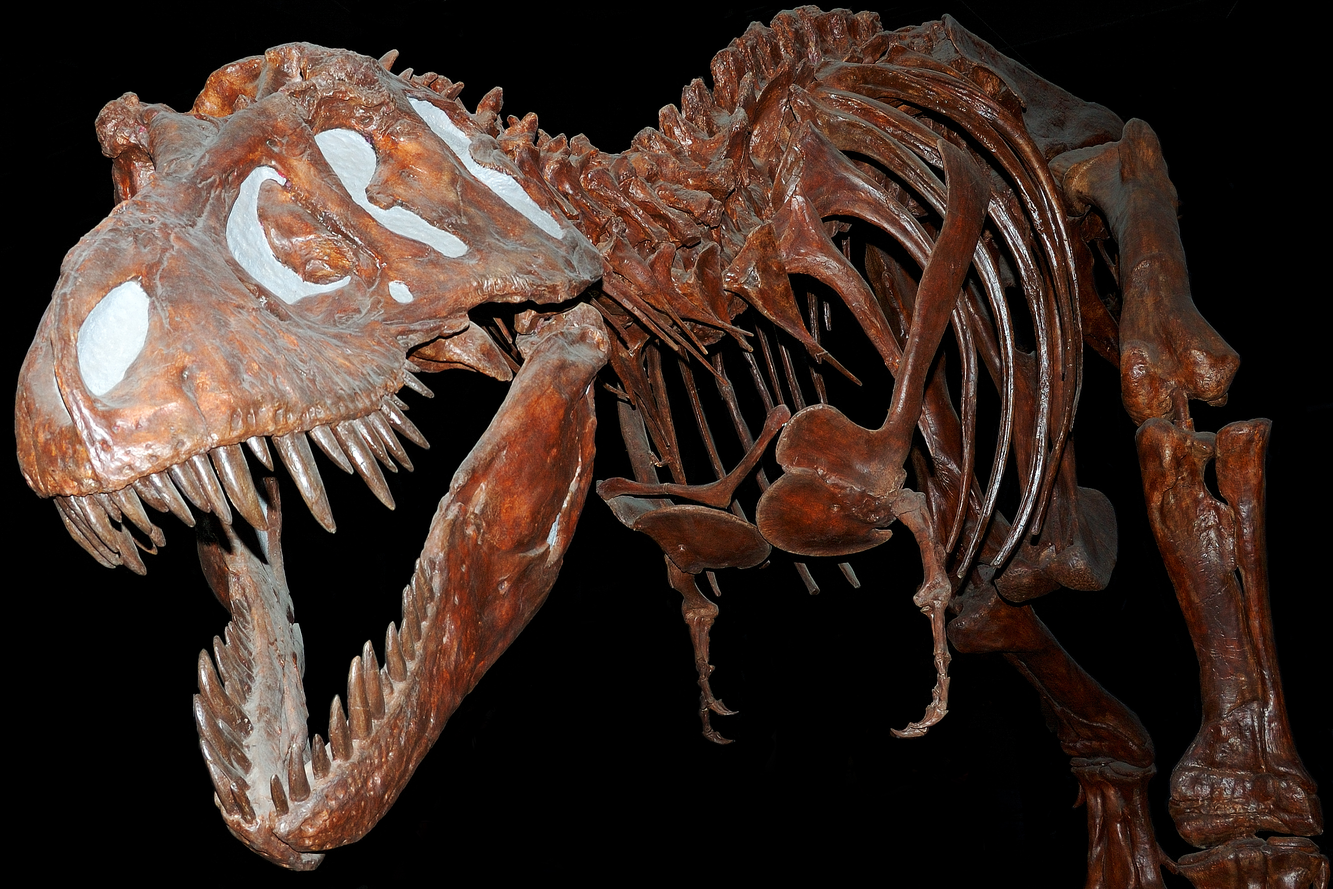 View of the fossil/cast Tyrannosaurus Rex at the Royal Tyrell Museum in Alberta, Canada. The image has been modified to remove background persons and objects.